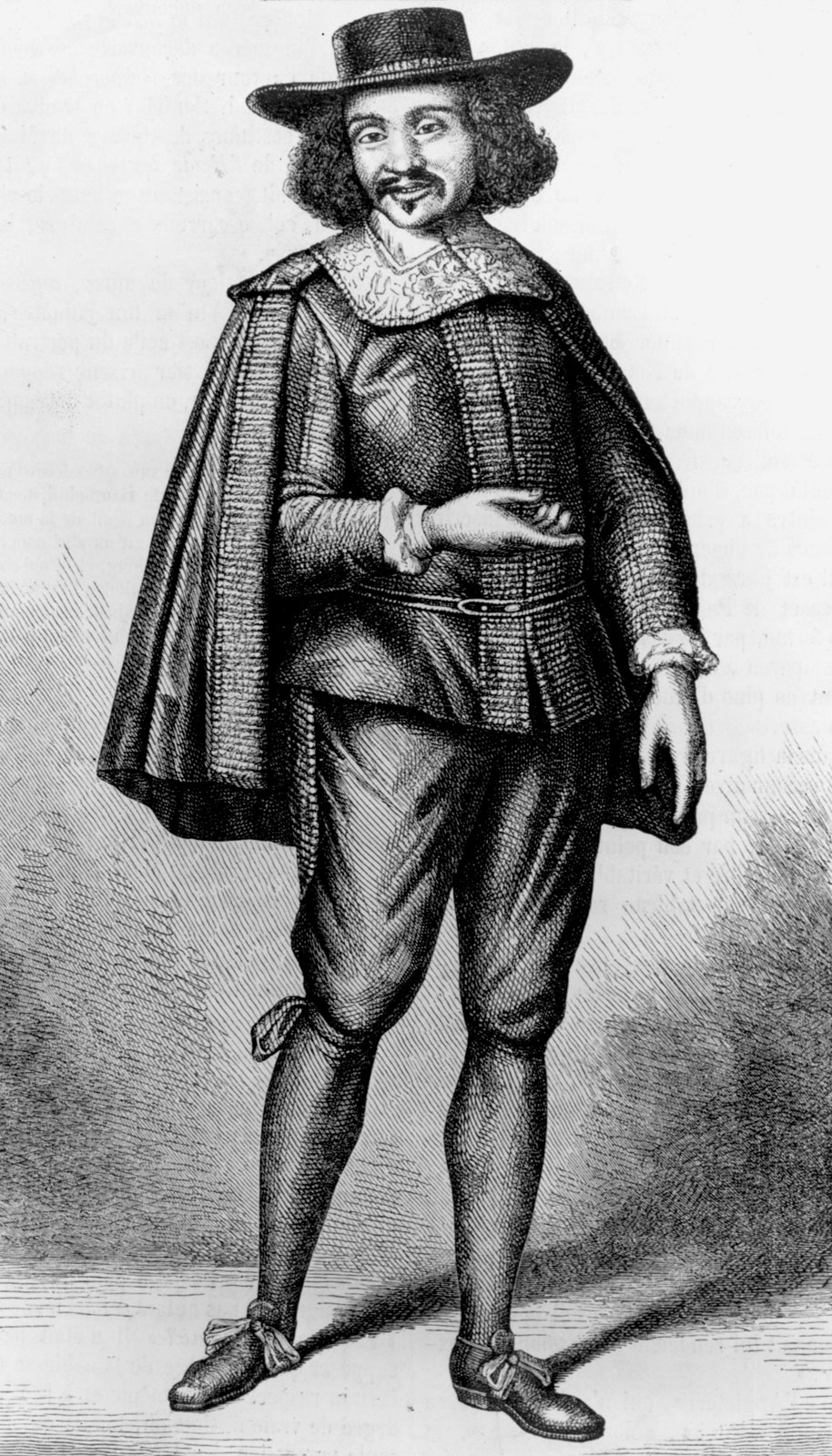 Moliere in theatrical costume drawing by Eustache Lorsay